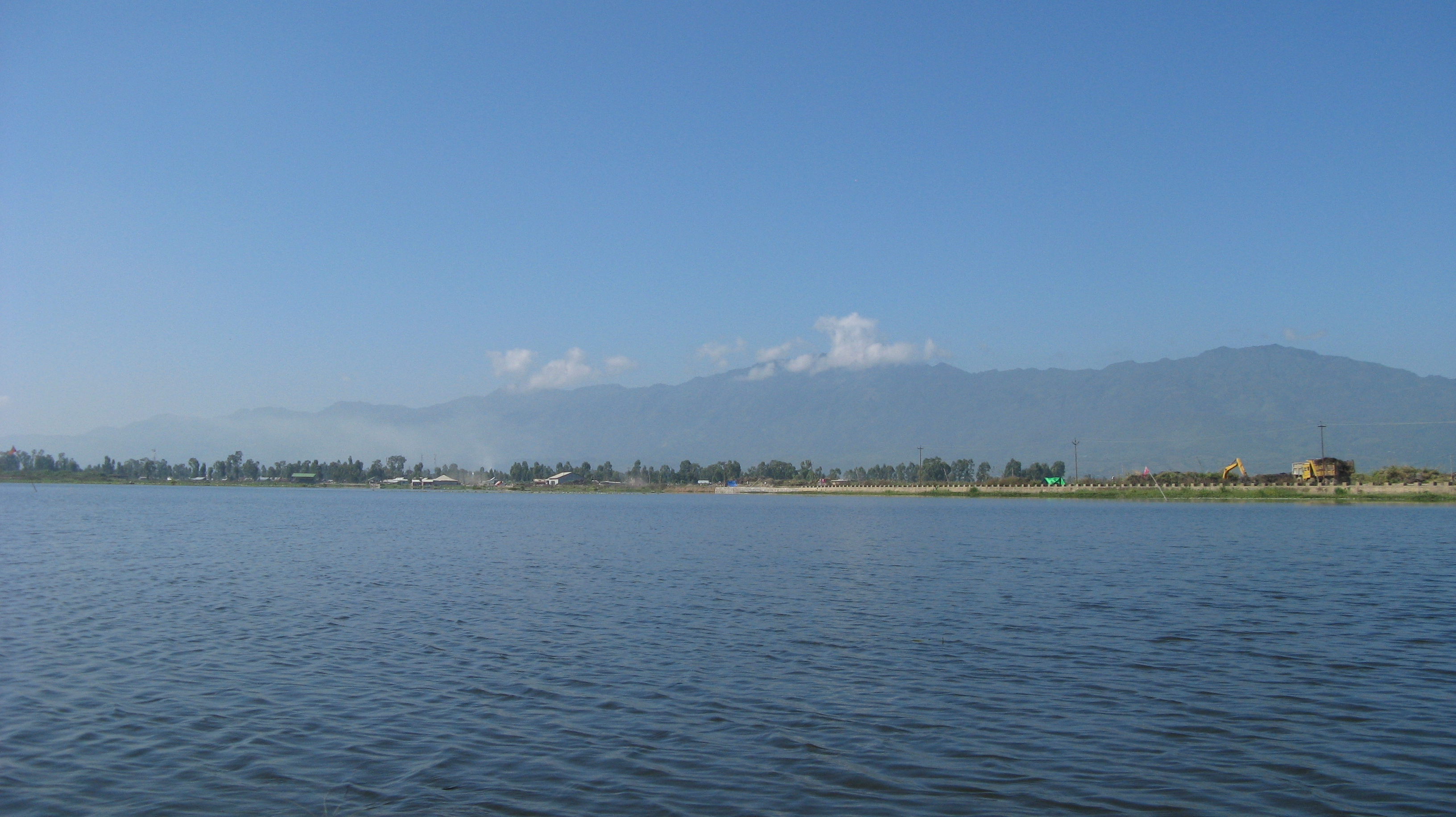 Loktak Lake, the largest freshwater (sweet) lake in northeast India, also called the floating lake due to the floating phumdis (heterogeneous mass of vegetation, soil, and organic matters at various stages of decomposition) on it, is located near Moirang in Manipur state, India.